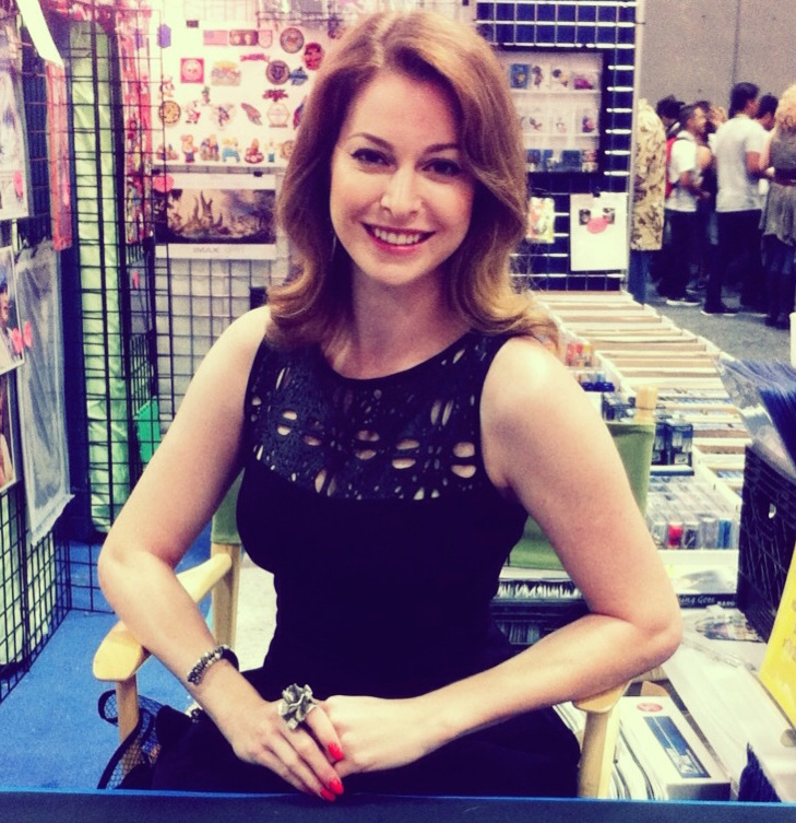 Esmé Bianco at San Diego Comicon 2013